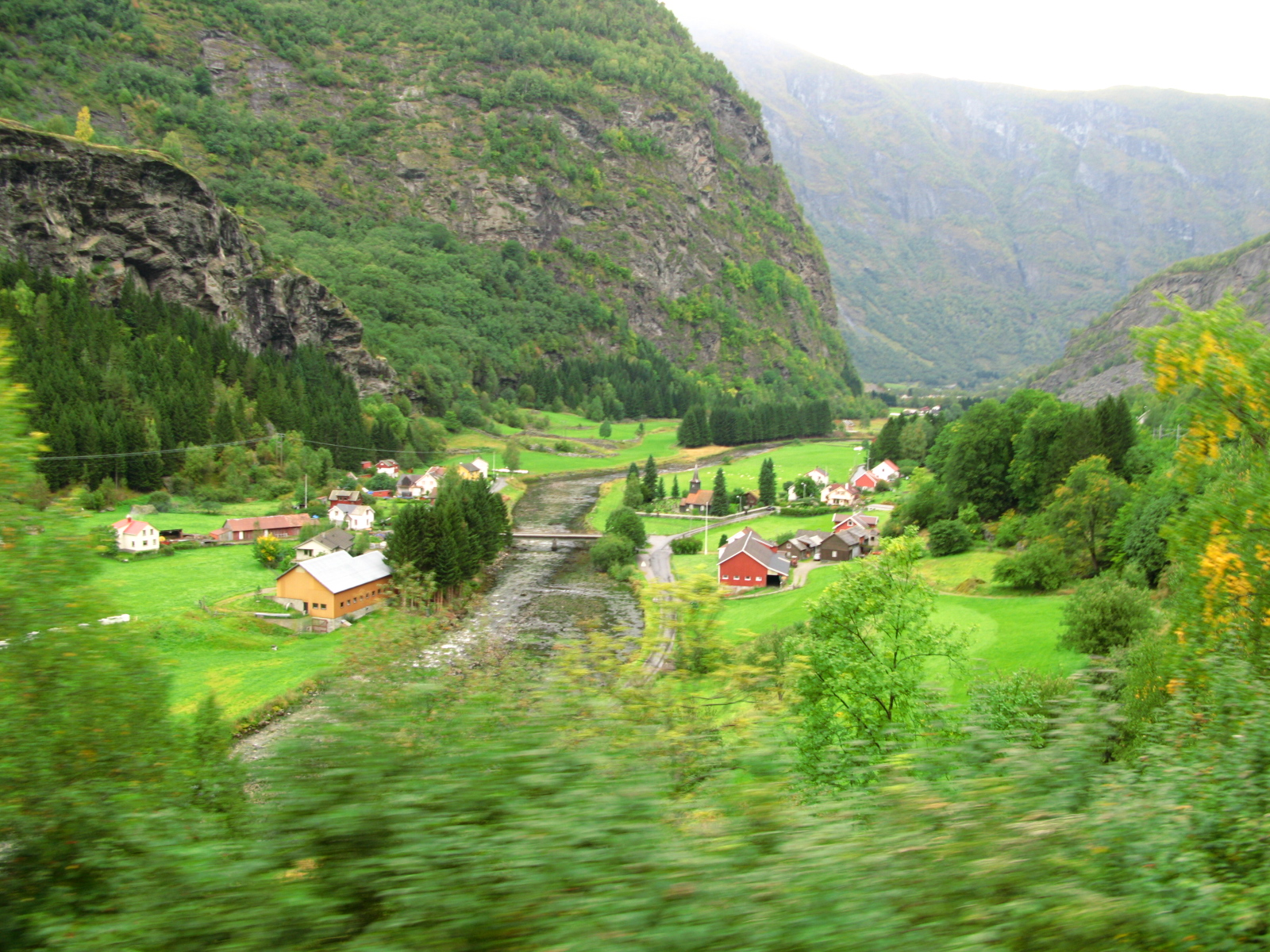 Flåm church and farms by river Flåmselvi in Flåmsdalen seen from train on railway Flåmsbanen